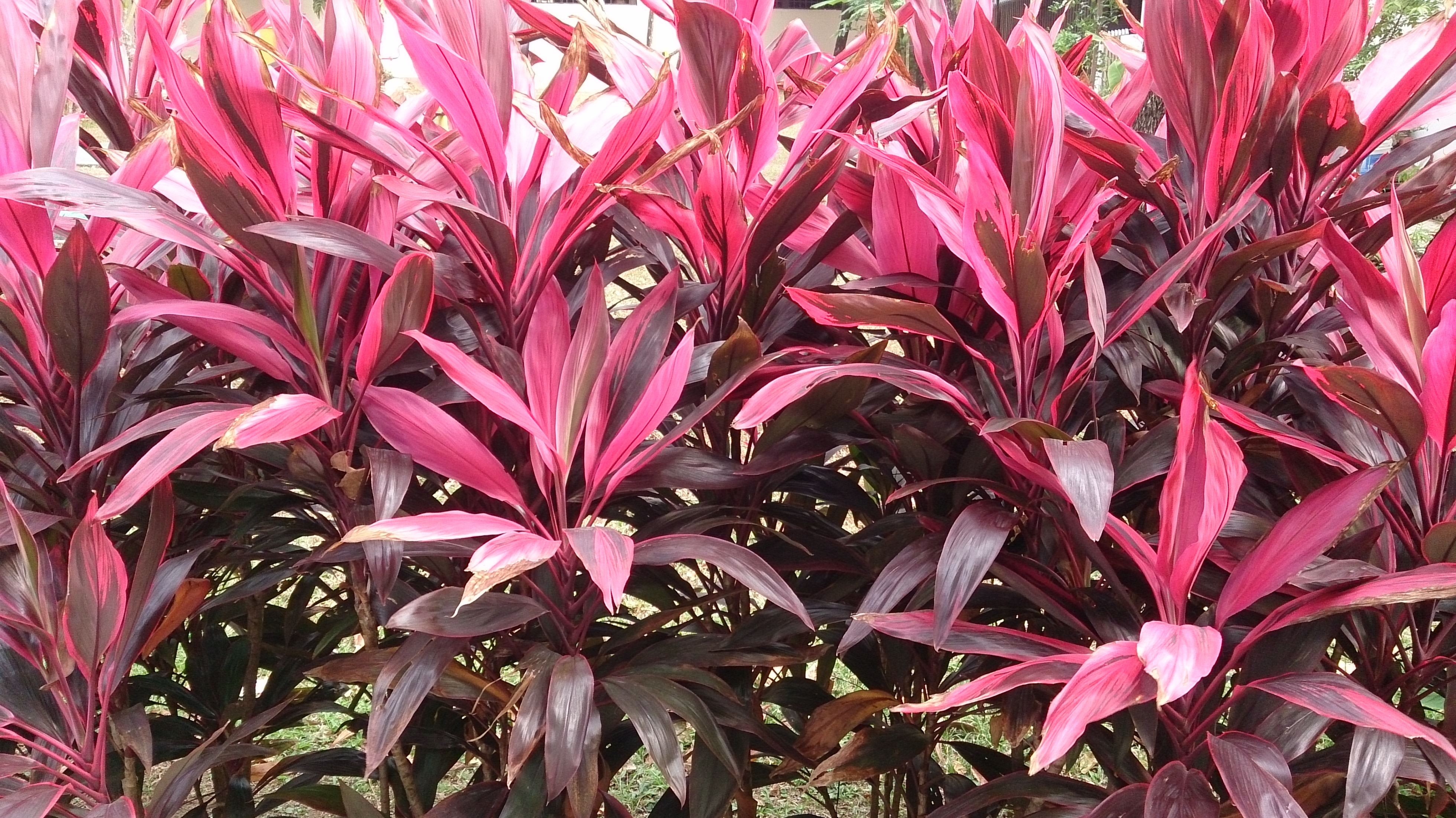 Cordyline fruticosa 'Firebrand'. Common names: Hawaiian Ti Plant, Good Luck Plant, Ti Plant